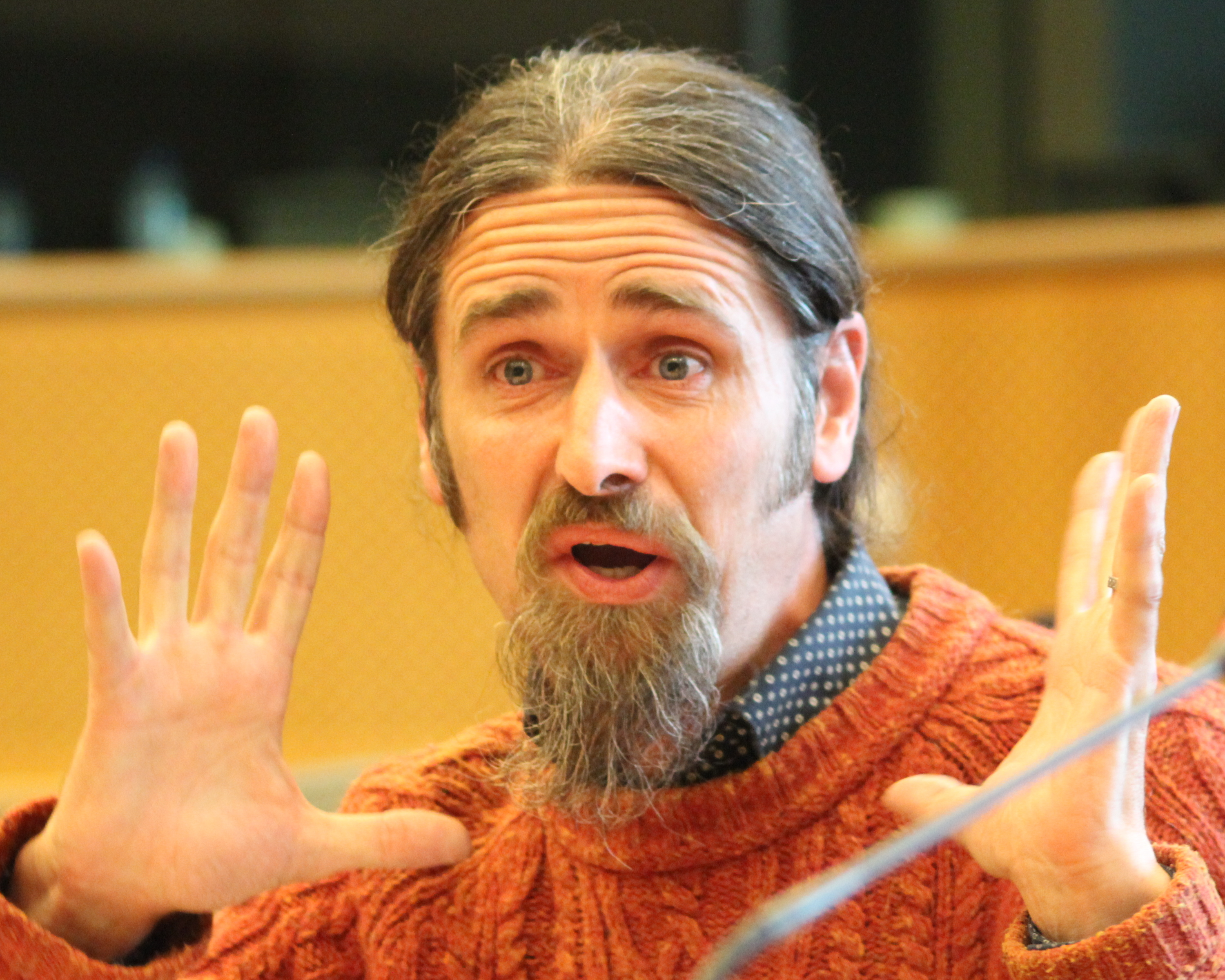 Luke 'Ming' Flanagan in 2014